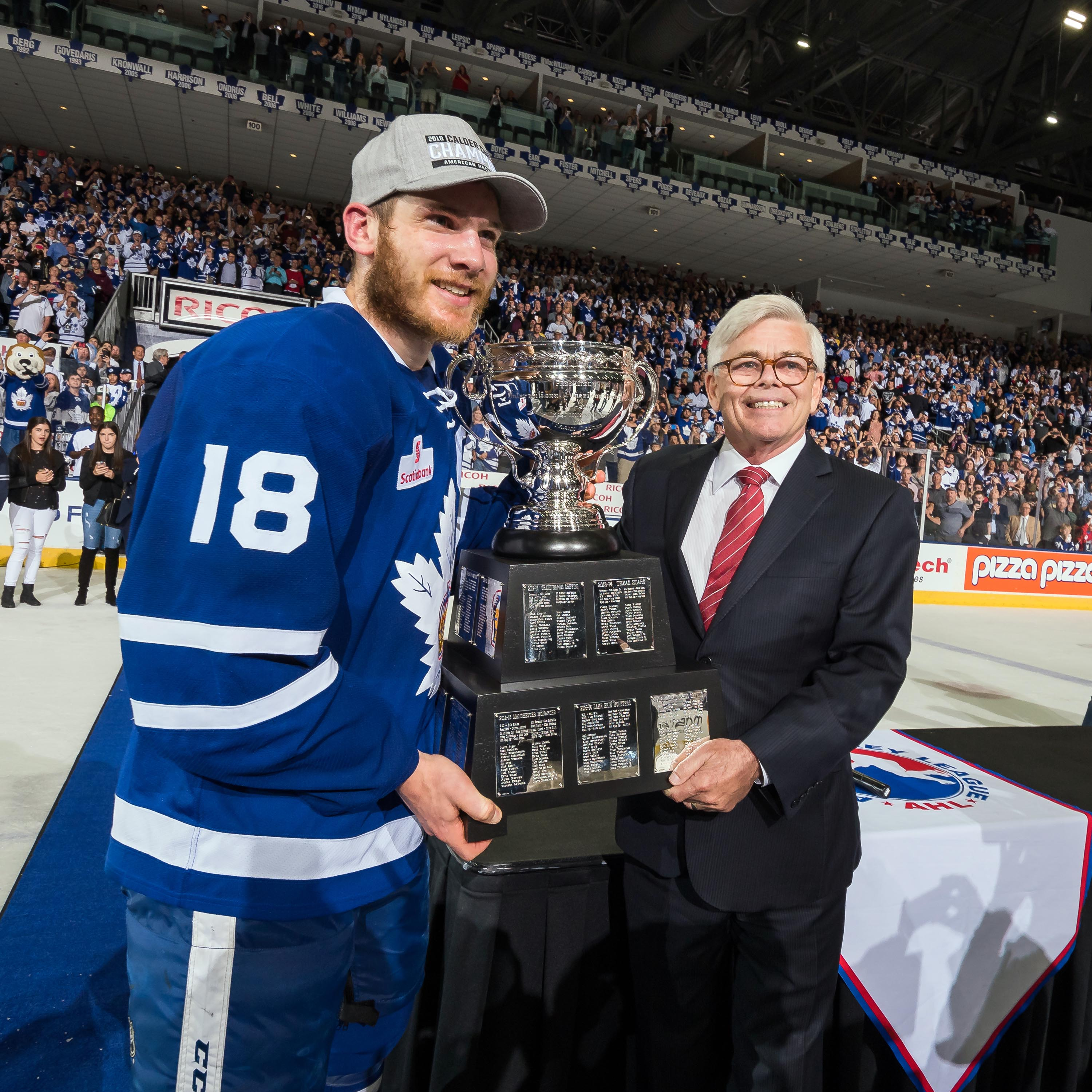 Photo: Christian Bonin